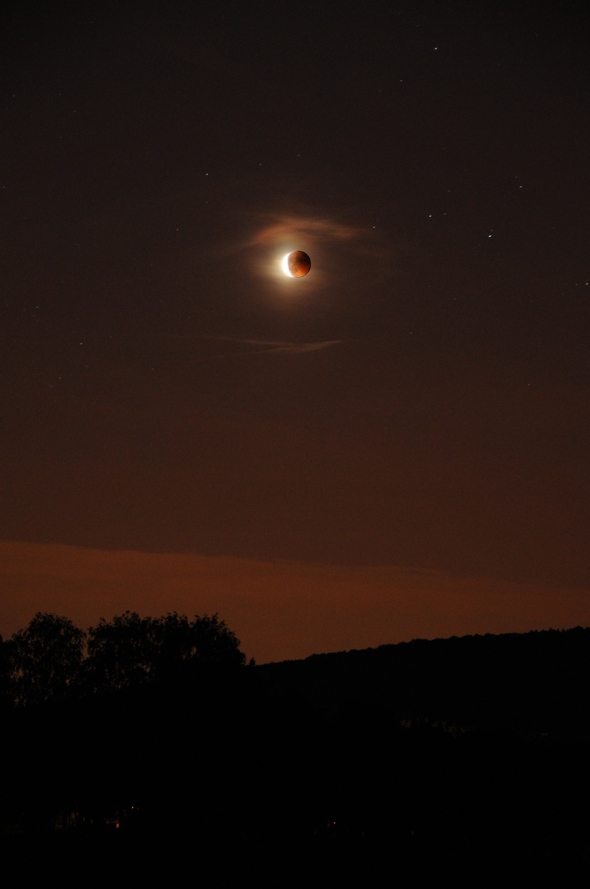 This photograph was taken with a Nikon D300 Éclipse de Lune du 15 juin 2011.